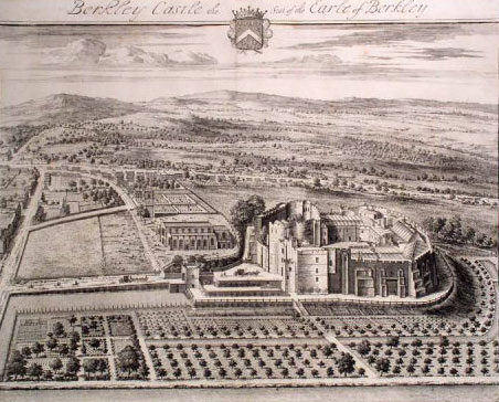 Engraving of Berkeley Castle, Seat of the Earl of Berkeley by Jan Kip, 1712.